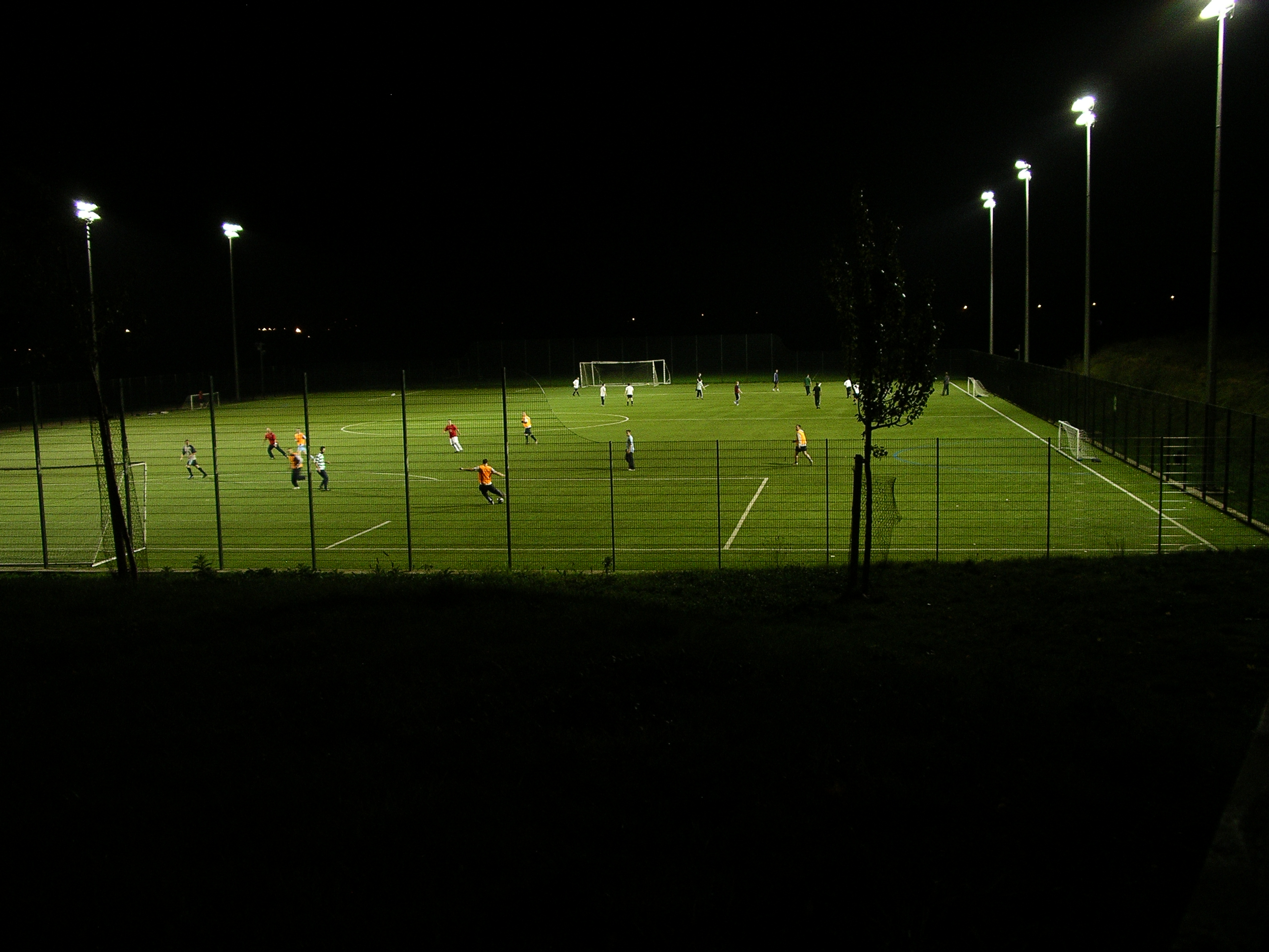 Alan Higgs Centre, Coventry, England. An outdoor football pitch at about 9.00pm with flood lights on.